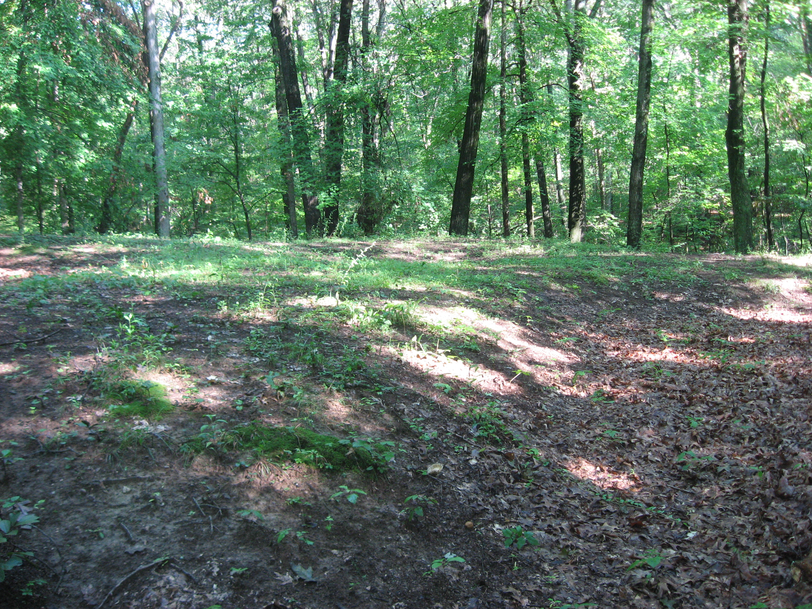 The Tarlton Cross Mound, a Native American mound possibly built by the Fort Ancient culture, seen from the south. Located in Cross Mound Park just north of Tarlton in Clear Creek Township, Fairfield County, Ohio, United States, the mound is listed on the National Register of Historic Places.